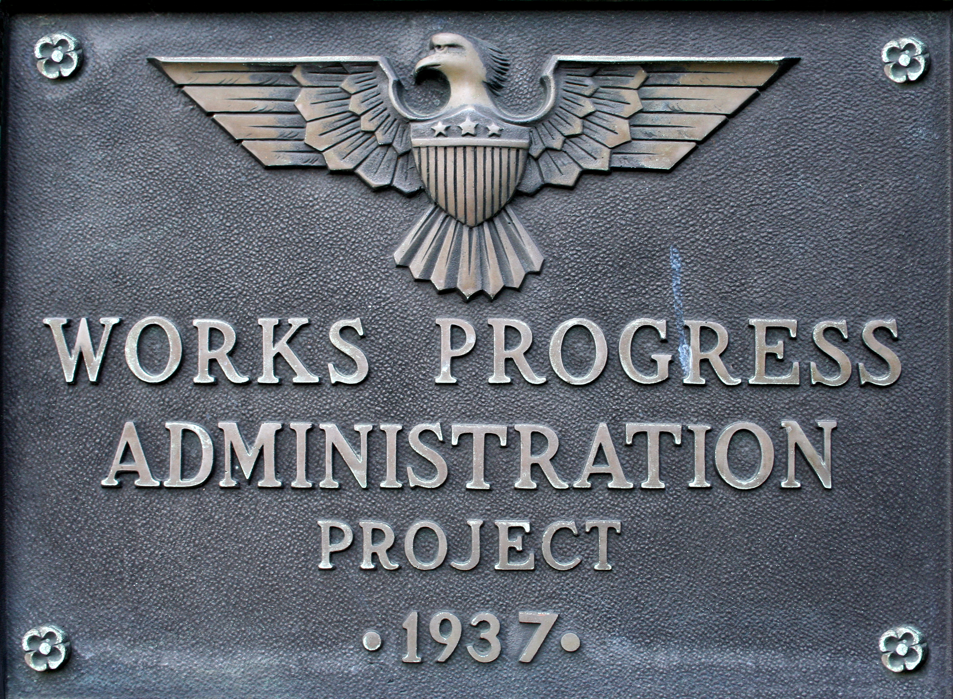 "Works Progress Administration Project 1937" sign on the City Hall in Stewartville, Minnesota. Design is public domain work of the United States federal government.